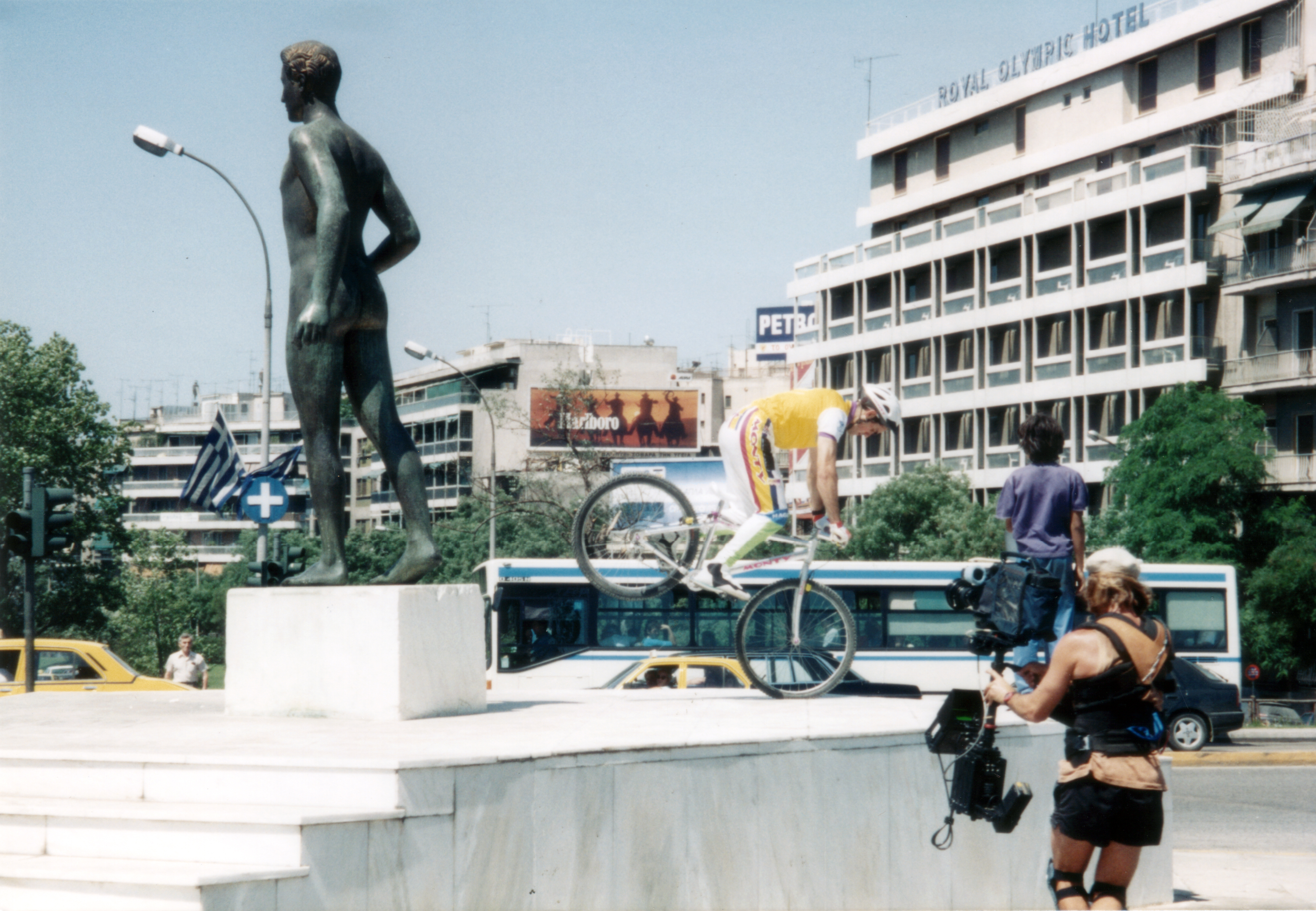 Steadicam operator Dick Crow videotapes World Trials Champion Ot Pi in Athens, Greece, 1994. Photograph by Patty Mooney, Crystal Pyramid Productions, San Diego